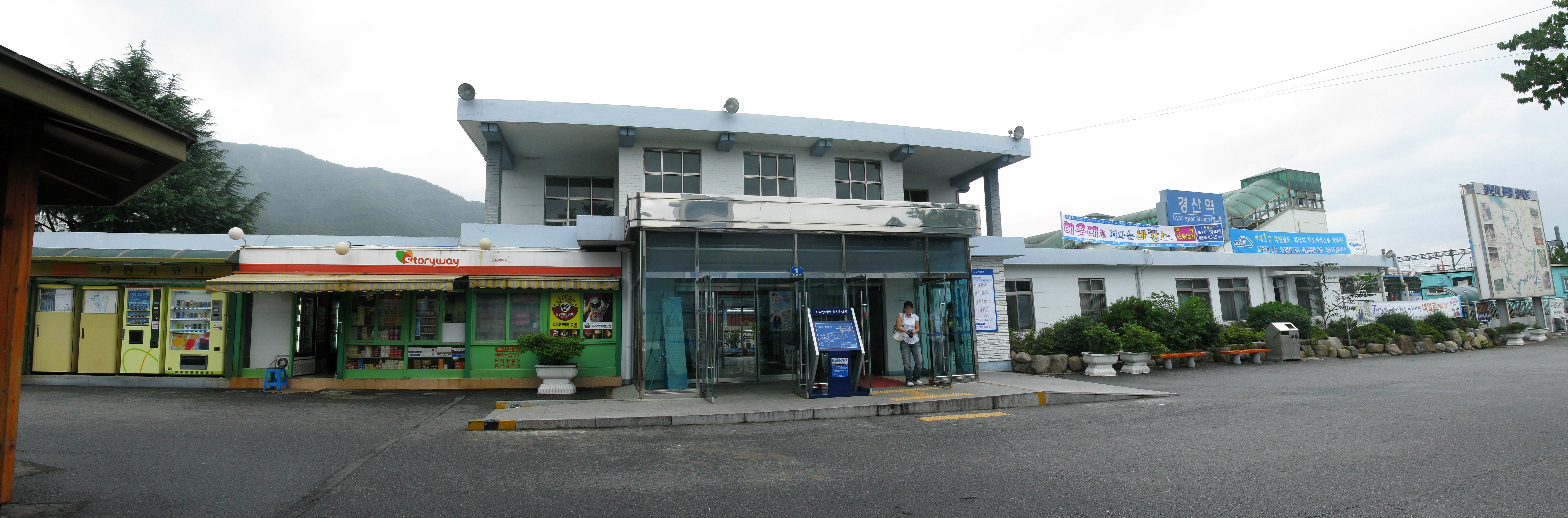 Gyeongbu Line Gyeongsan Station (Old)